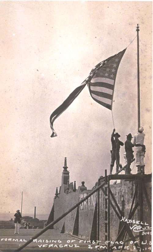 Caption reads "Formal raising of first flag of U.S. / Veracruz 2 P.M. April 27, 1914" Photograph by Hadsell taken during the U.S. occupation of Veracruz.